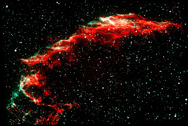 Veil Nebula NGC 6992